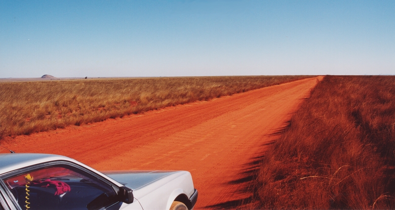 The red dust of a path in South Madagascar.